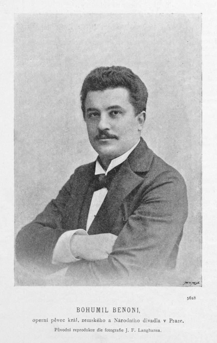 Portrait of Bohumil Benoni (1862-1942), Czech opera singer.